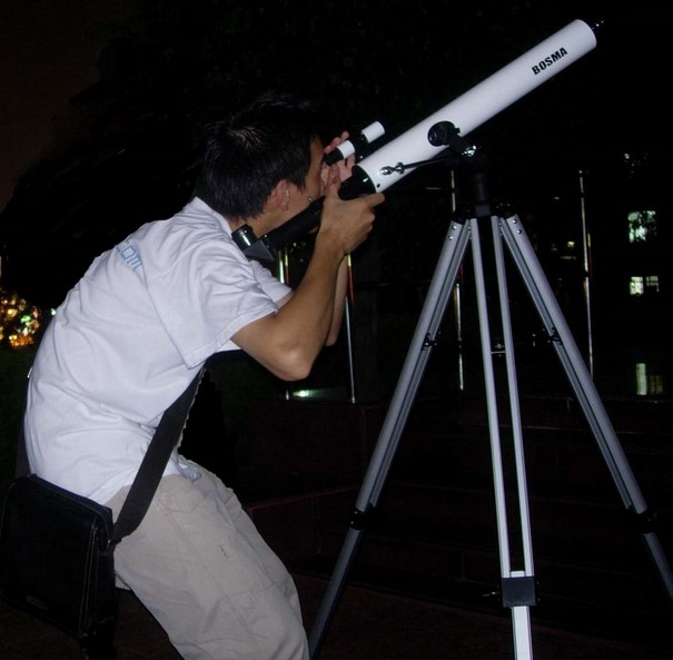 Astronomy enthusiasts Star-watchers